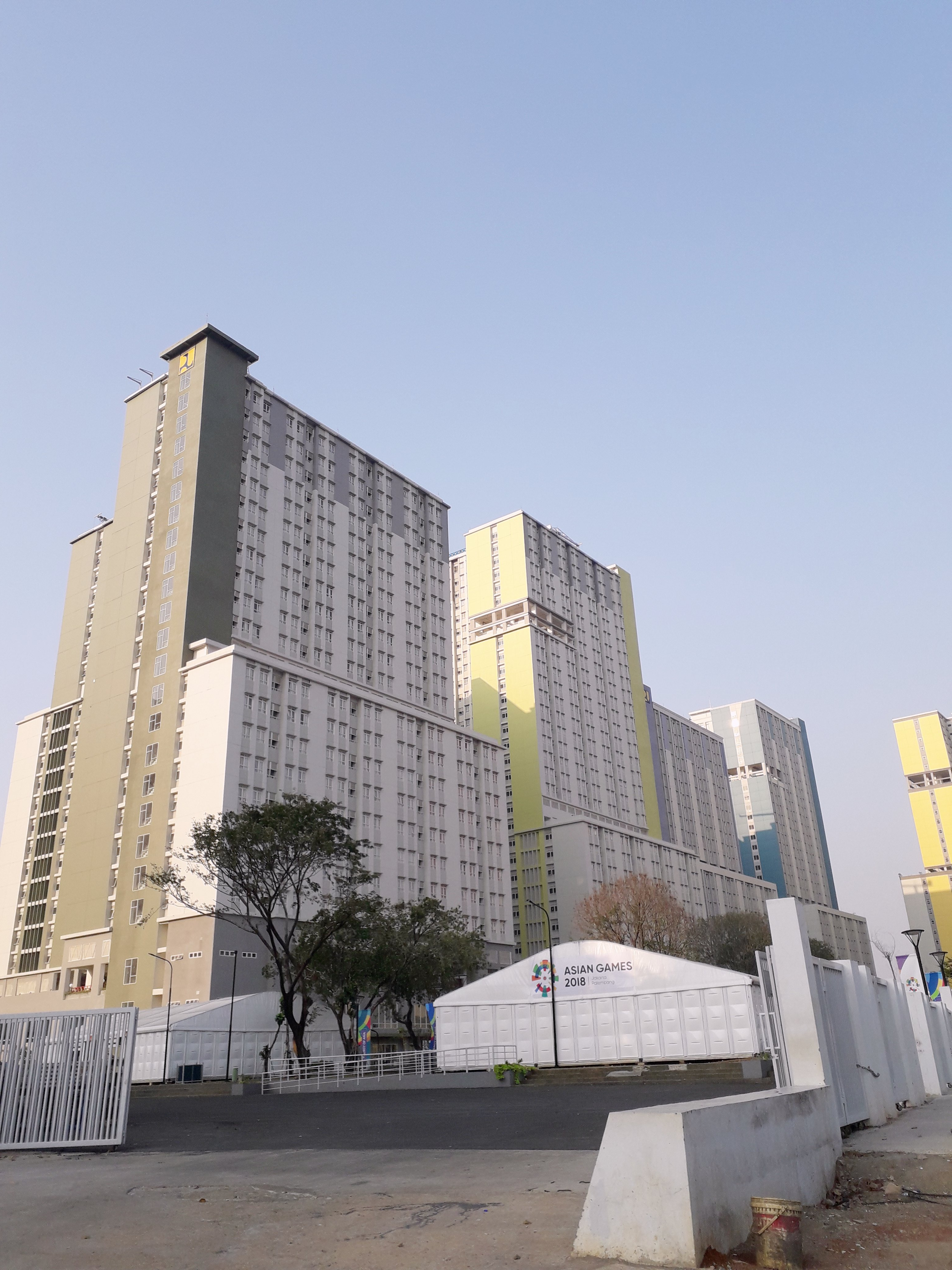 Athlete's Village (Wisma Atlet) at Kemayoran, Central Jakarta. Home for the athletes while competing at 2018 Asian Games.